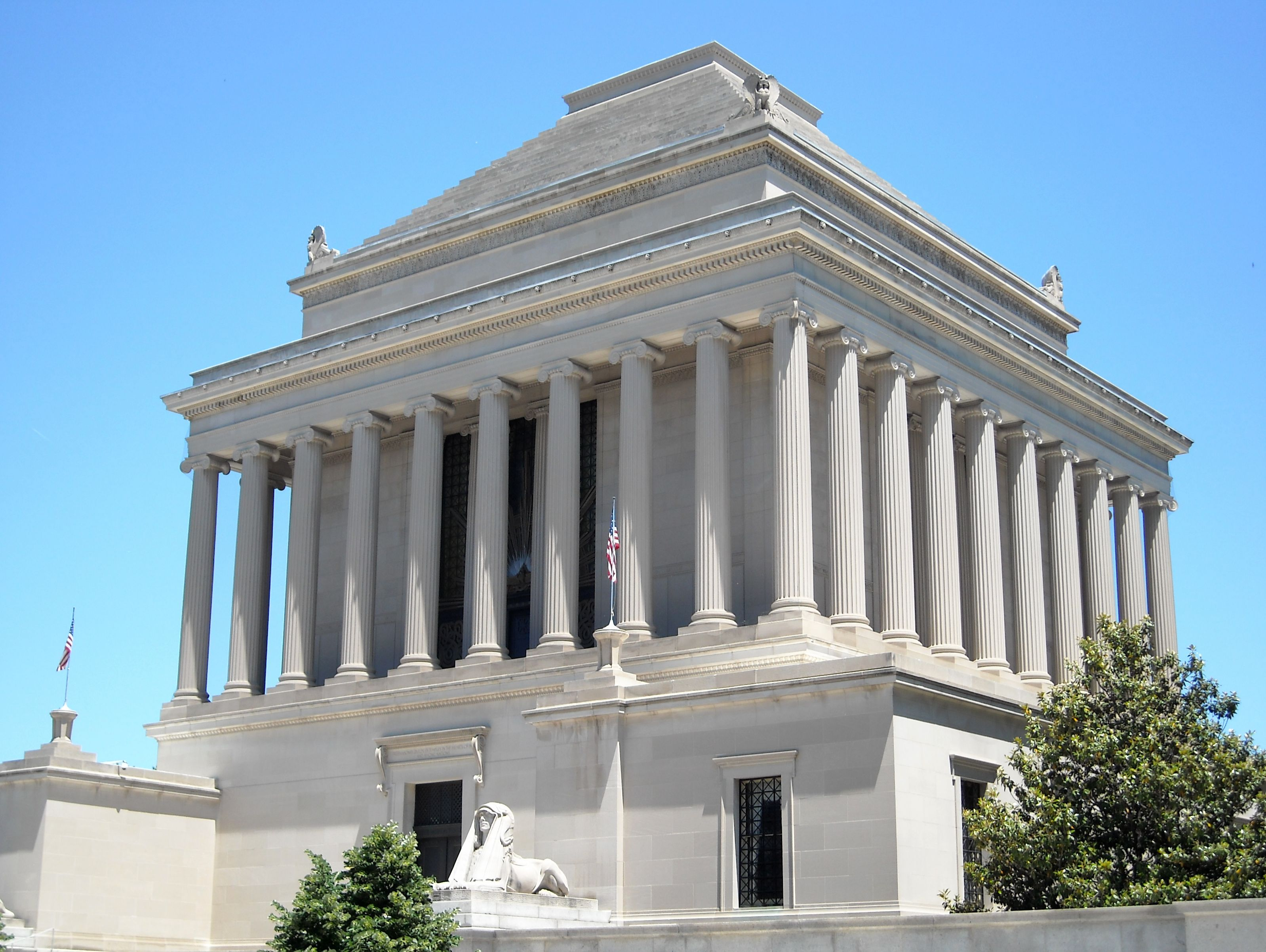 Scottish Rite Masonic Temple on 16th Street in Washington, D.C.